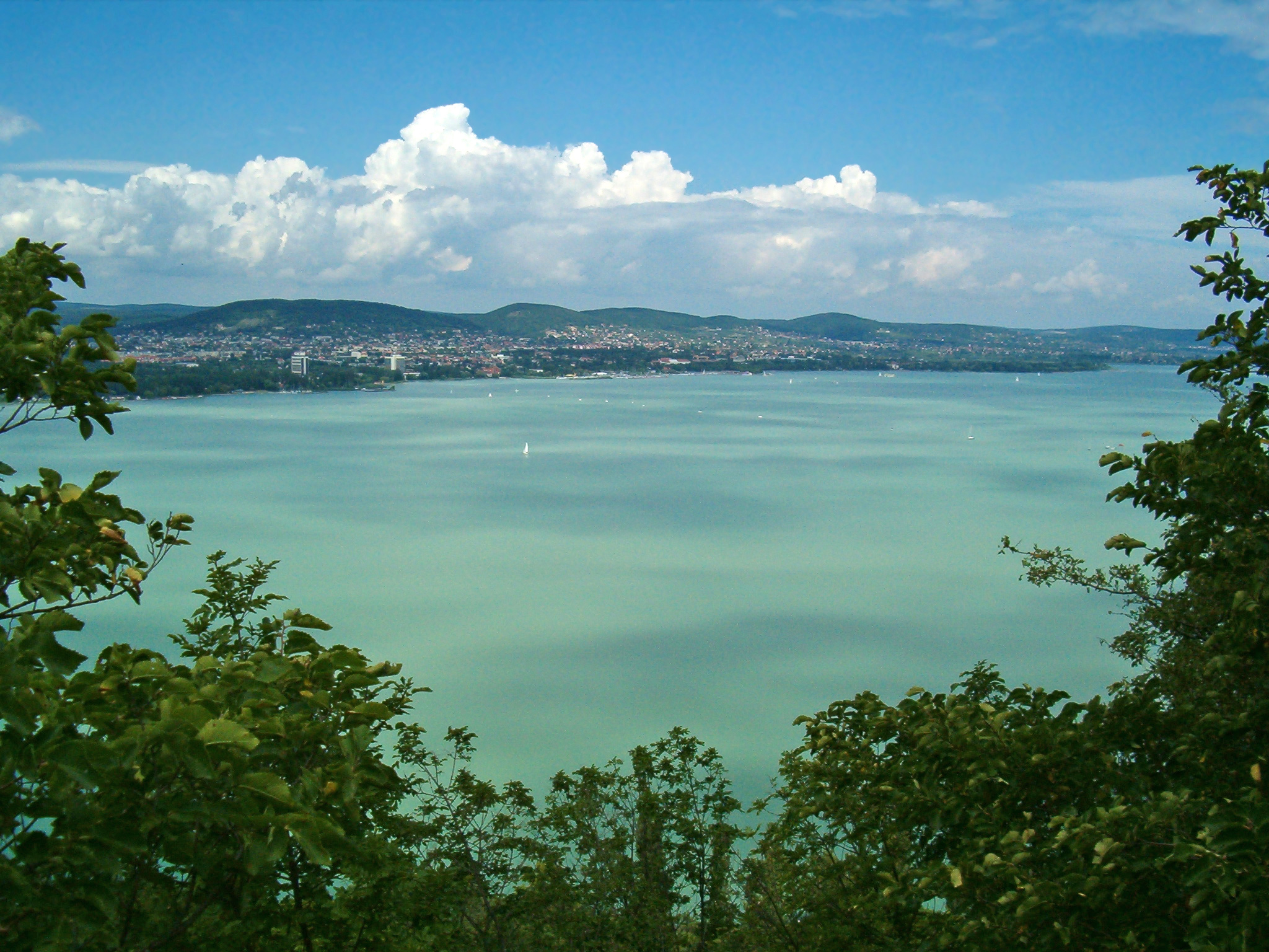 Lake Balaton from Tihany Peninsula (Hungary)